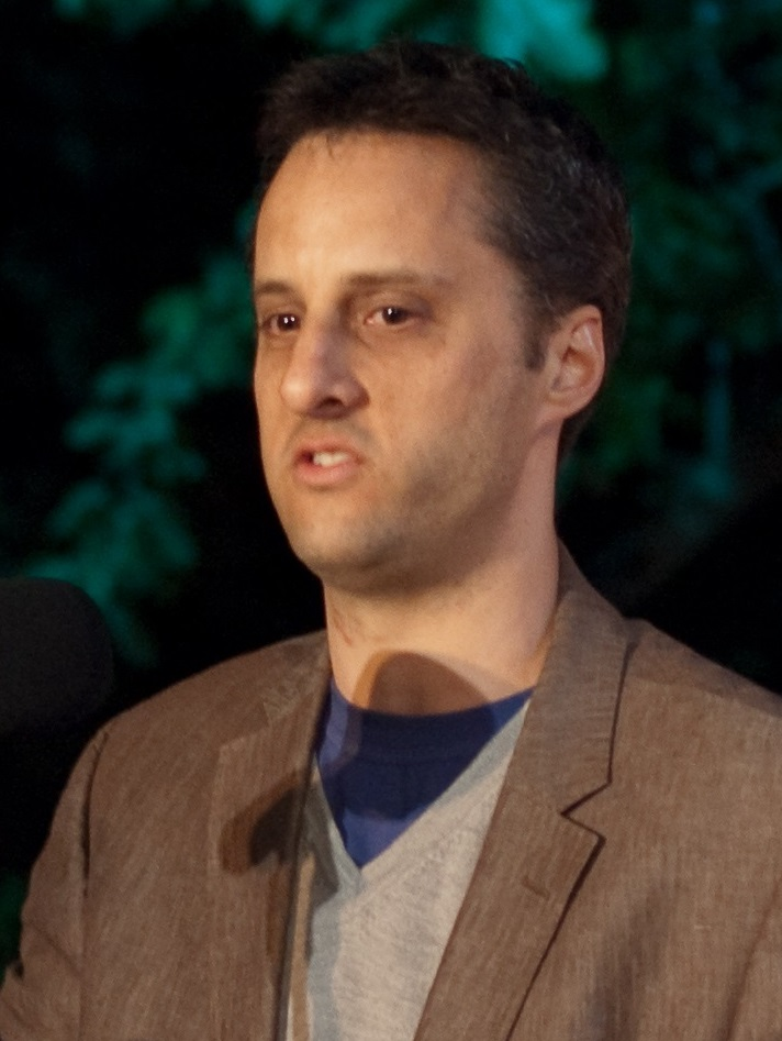 British author Adam Foulds